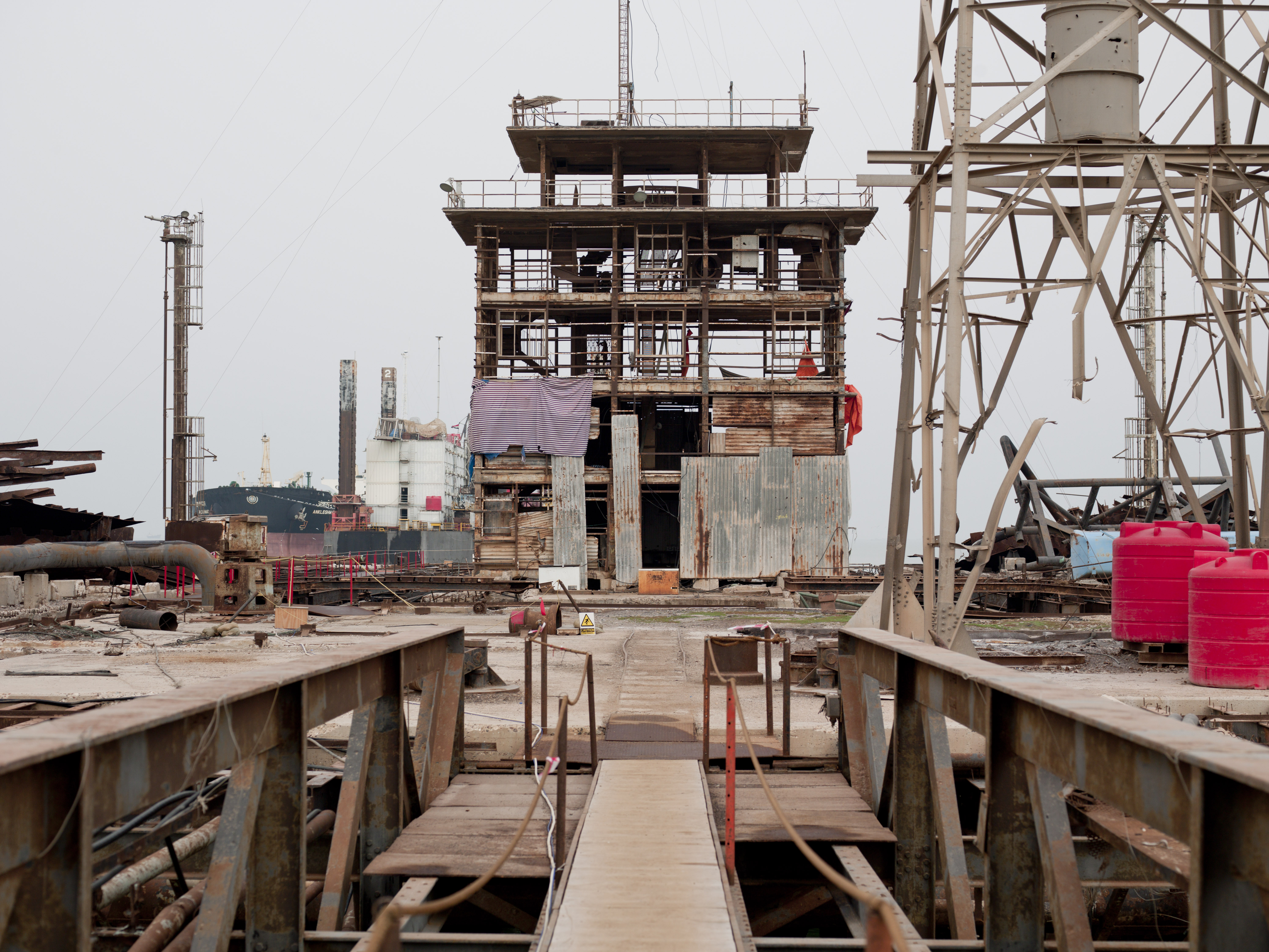 KAAOT Oil Platform taken in 2007.